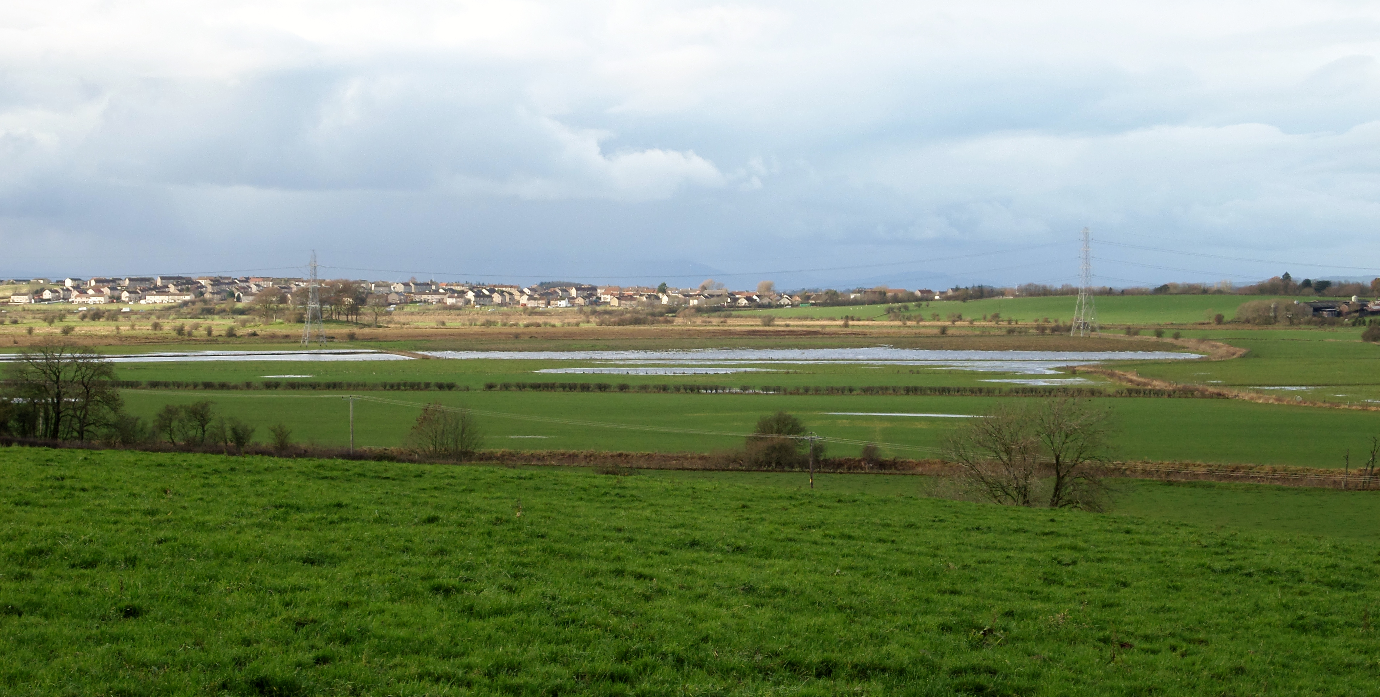 Riccarton moss and Kilmarnock from Haining Place, East Ayrshire, Scotland. The Tinker's Mound is in the background - it was a site where betting, etc once took place.